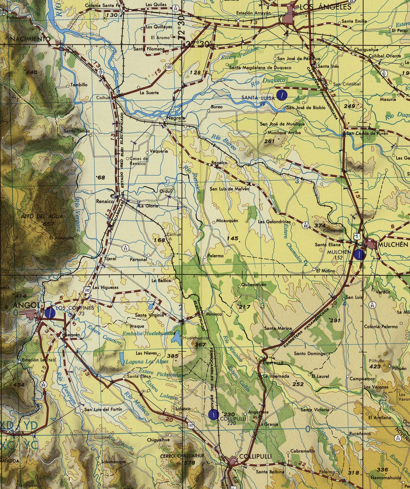 Ciudades: Los Angeles, Collipulli, Angol, Mulchen, Negrete. Rios: Biobio, Vergara, Rehue, Bureo, Renaico, Huequen, Malleco, Duqueco, Tavoleo